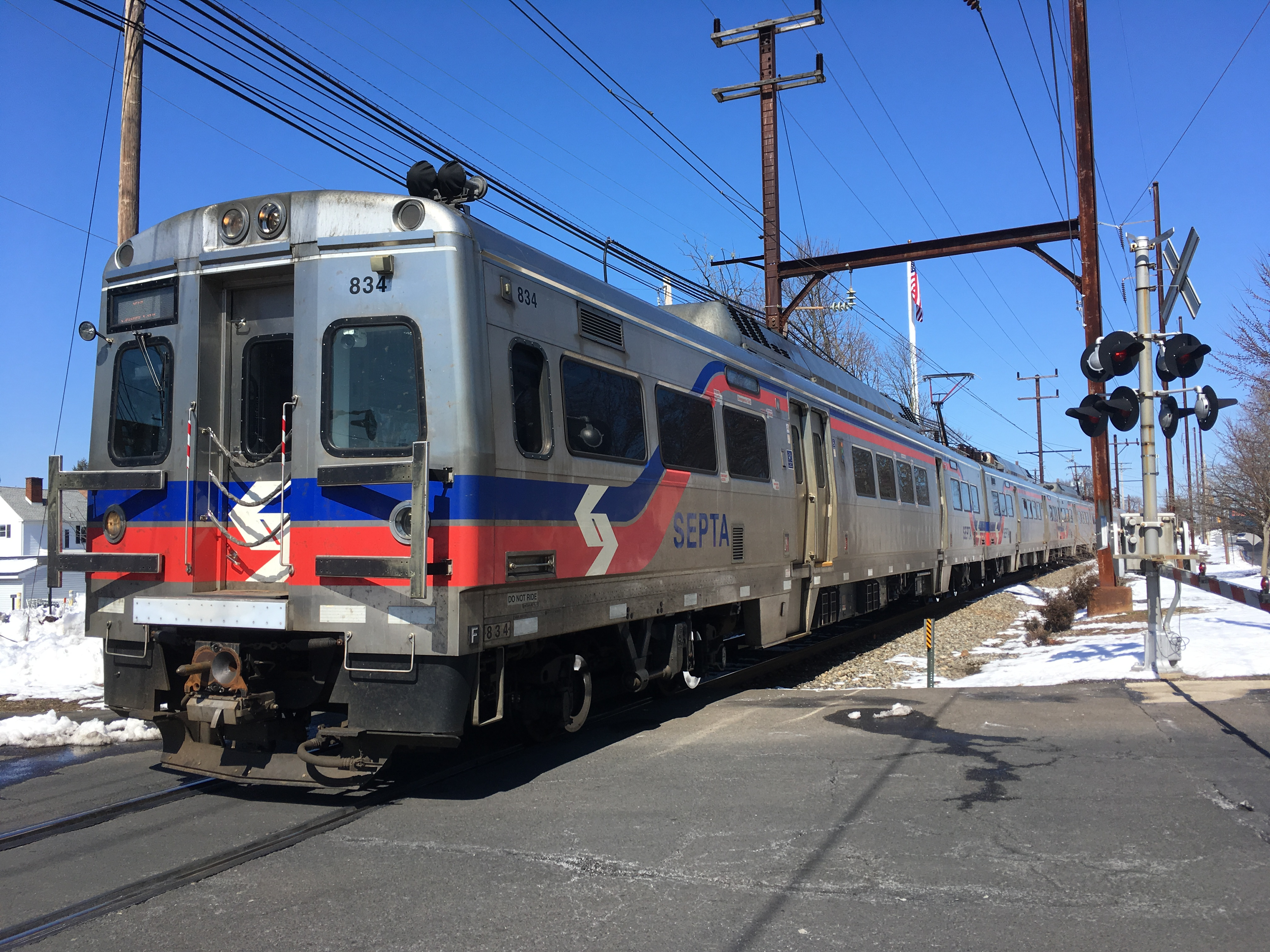 SEPTA Silverliner V 834 leads a Warminster Line train bound for Center City Philadelphia towards the Hatboro Station in Hatboro, Pennsylvania